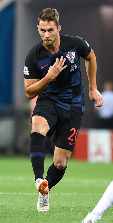 Marko Pjaca